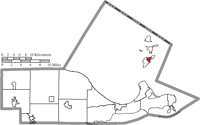 Map of the municipal and township boundaries of Ottawa County, Ohio, United States, as of the 2000 census, with the location of the village of Put-in-Bay highlighted. Township borders are shown only in unincorporated areas in order to differentiate incorporated and unincorporated areas more clearly.